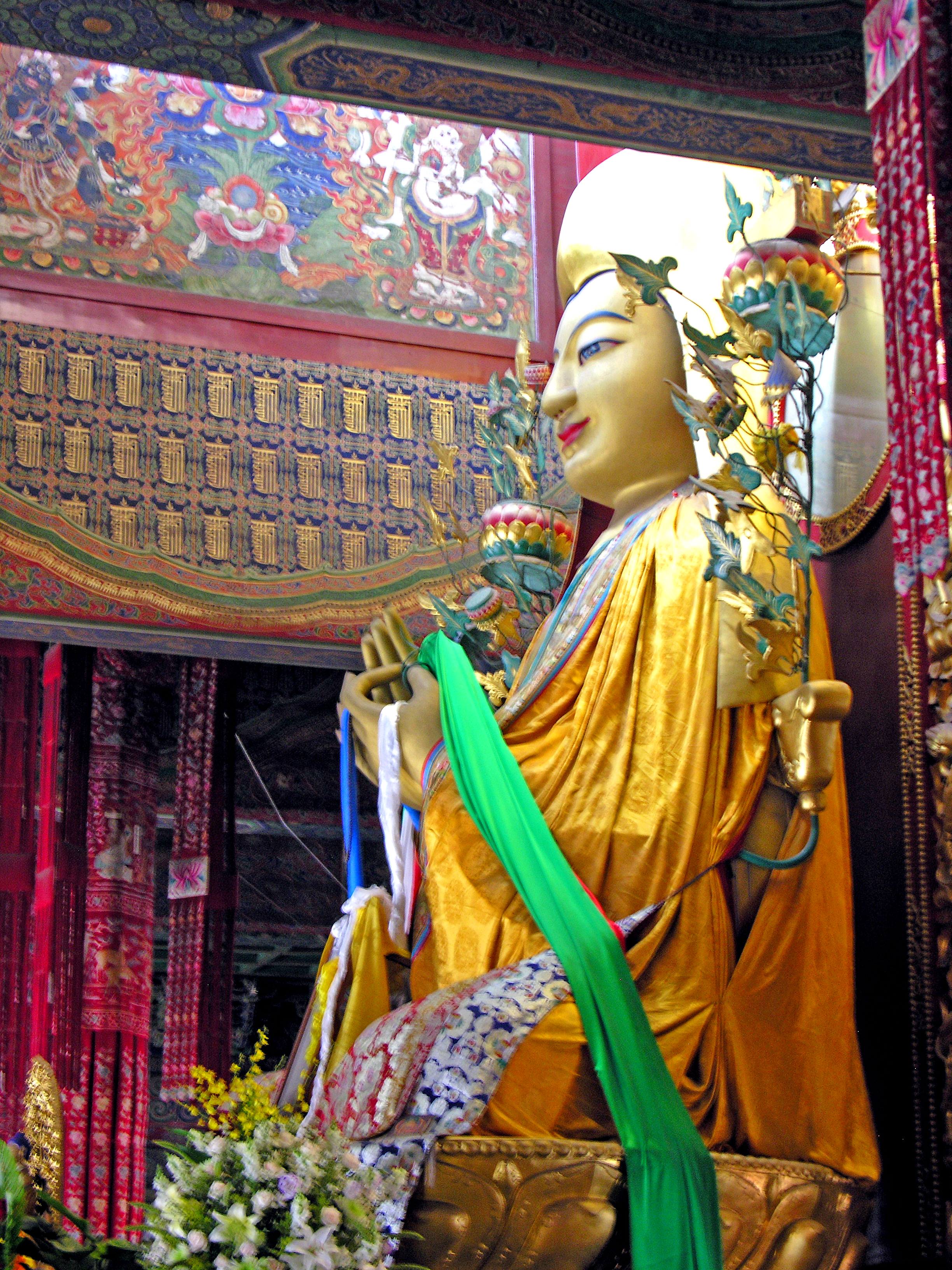 Hall of the Wheel of the Law (Falun dian in Chinese) was given this name after the Yonghegong was transformed into a lamasery in 1744 A.D. On the altar is Tsongkhapa, who founded the Yellow Sect of Lamaism.